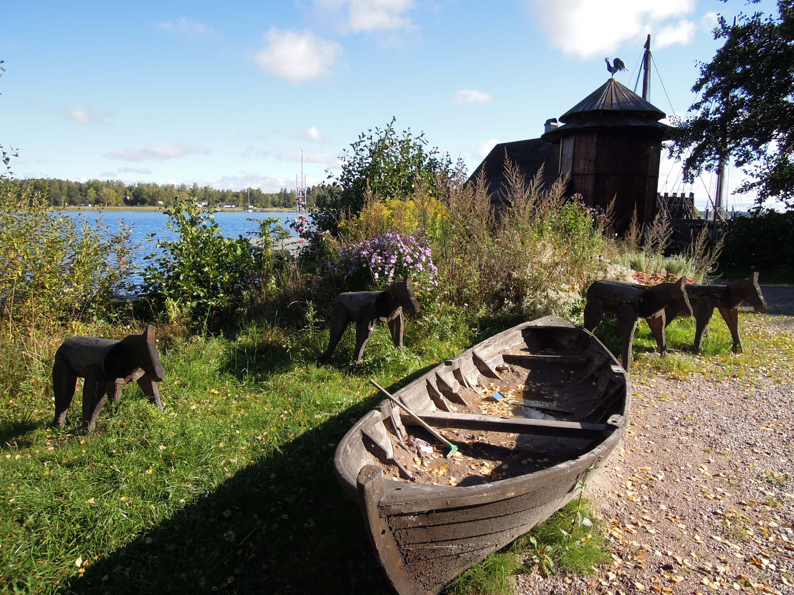 Boat and boathouse at Frösåkers brygga outside Västerås, Sweden